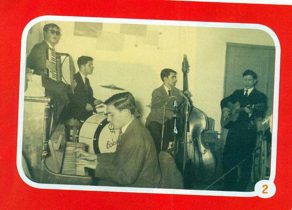 José Cid e os Babies